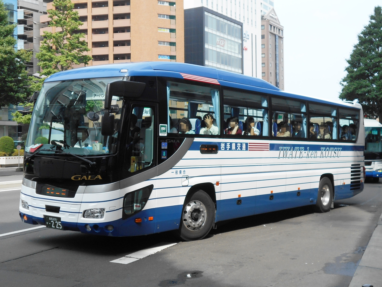 Iwateken kotsu Isuzu Gala (2TG-RU1ASDA)highwaybus "Urban"(Morioka-Sendai)